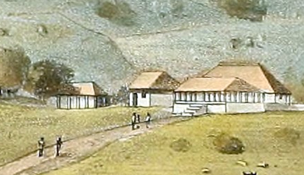 Detail from Hakewill, A Picturesque Tour of the Island of Jamaica, Plate 12.jpg